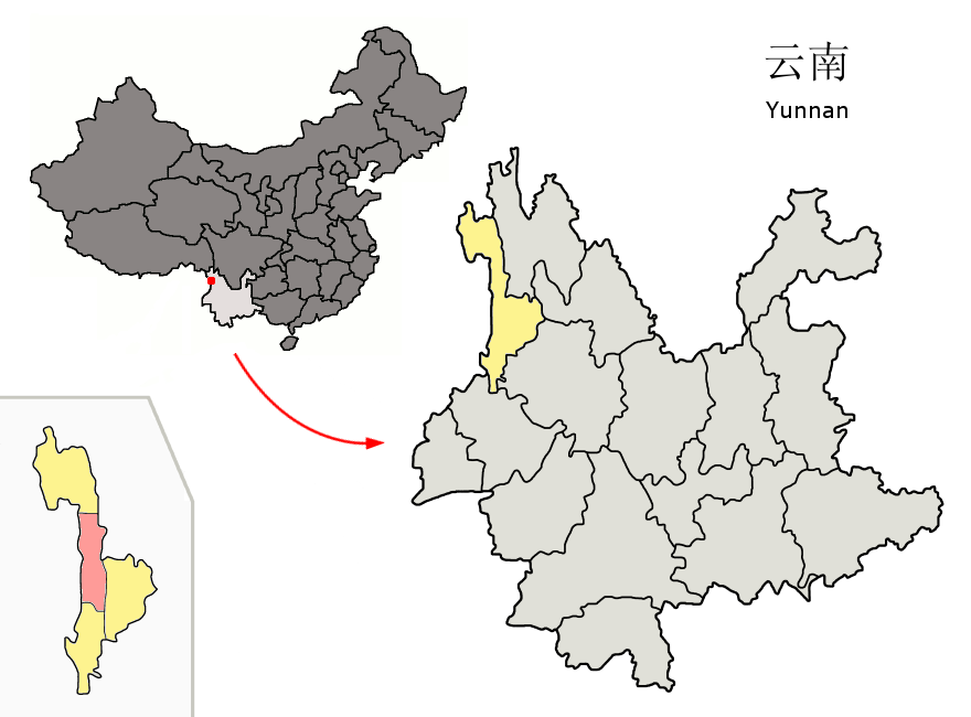 Location of Fugong County (pink) and Nujiang Prefecture (yellow) within Yunnan province of China Map drawn in september 2007 using various sources, mainly : Yunnan province administrative regions GIS data: 1:1M, County level, 1990 Yunnan Counties map from